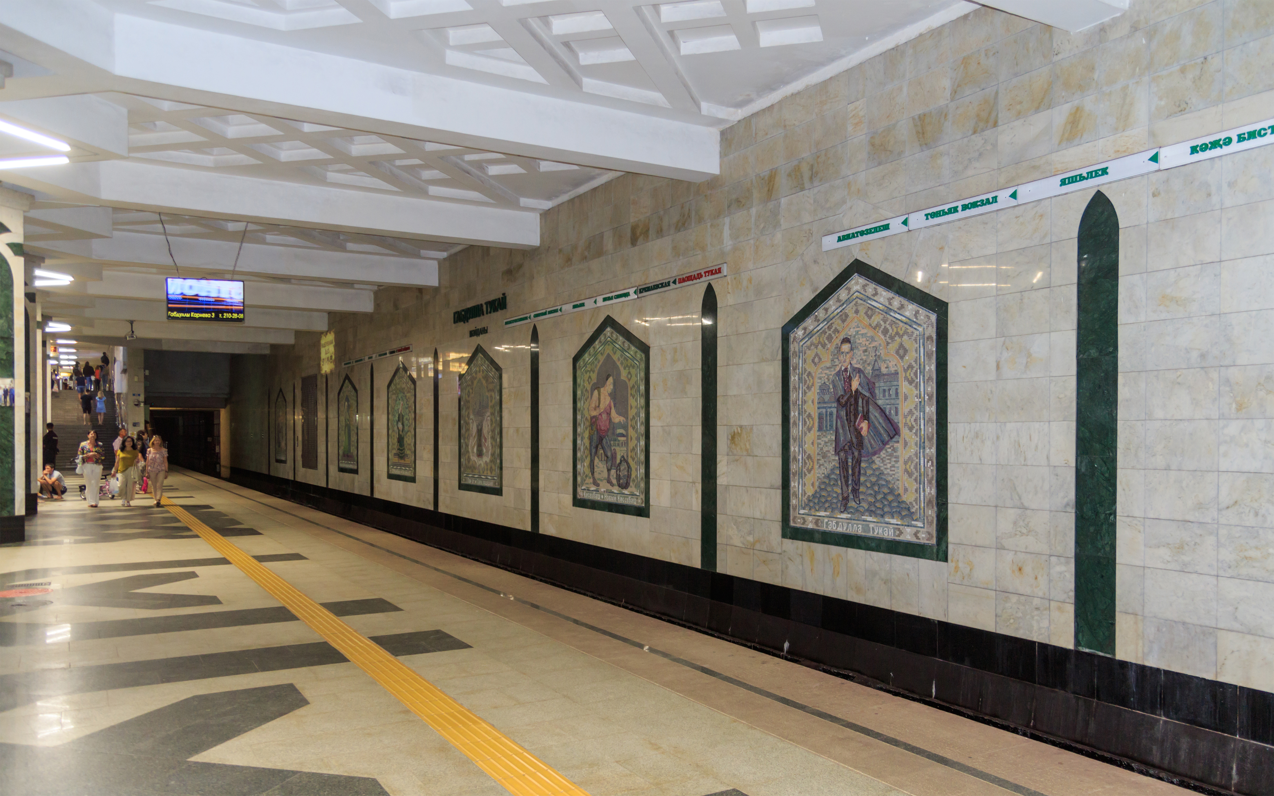 Tukay Square metro station in Kazan, Russia